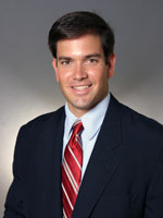 Marco Rubio, U.S. Senator from Florida, Former Speaker of the Florida House of Representatives